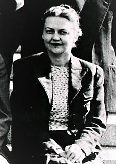 Cropped upper body of Bernice Eddy NIH image